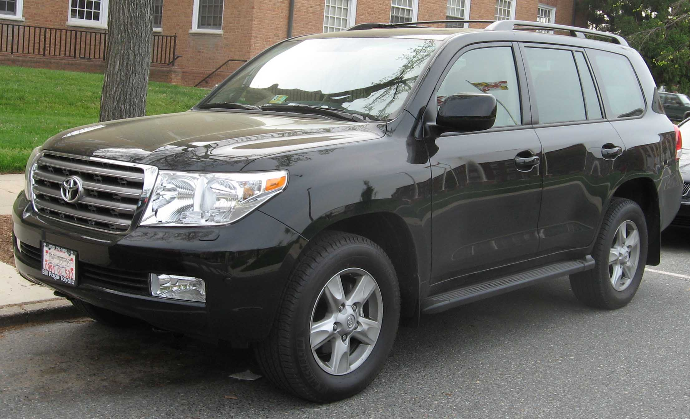 2008 Toyota Land Cruiser photographed in College Park, Maryland, USA.